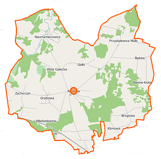 Map of Gmina Rusinów, Poland This map of Rusinów (gmina) was created from OpenStreetMap project data, collected by the community. This map may be incomplete, and may contain errors. Don't rely solely on it for navigation. Border coordinates51.496120.5098←↕→20.681851.3906